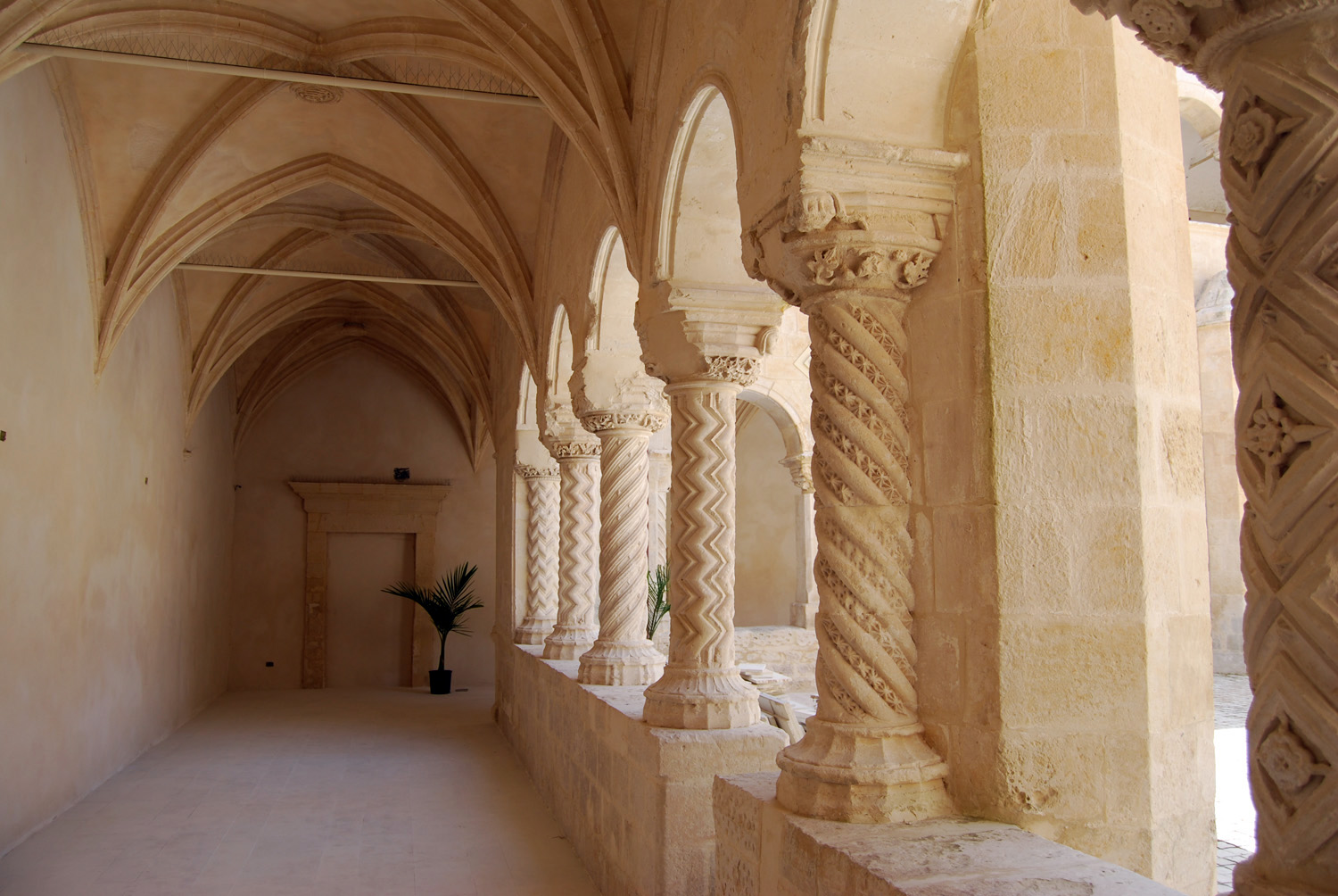 Cloister in Santa Maria del Gesù, Modica, Italy